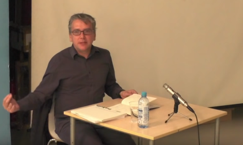 Video description: MaMa, Zagreb @ May 21, 2014 *** --- talk held within the event "Everything Comes Down to Aesthetics and Political Economy" Predavanje je dio projekta Prošireni estetički odgoj, tj. suradnje organizacija Berliner Gazette, Kontrapunkt, , Multimedijalni institut i Mute, uz podršku programa Kultura 2007-2013 Europske komisije. Podržali: Ministarstvo kulture RH, Gradski ured za obrazovanje, kulturu i sport Grada Zagreba.